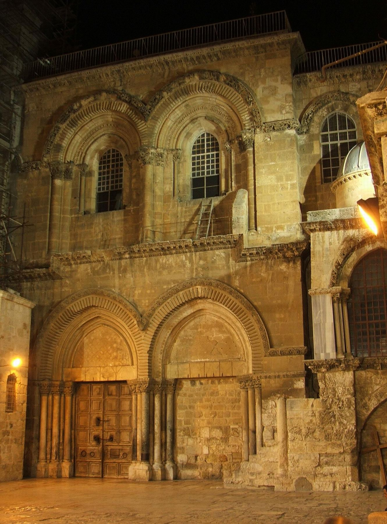 Nightshot of the entrance to the church of Holy Sepulchre, Jerusalem